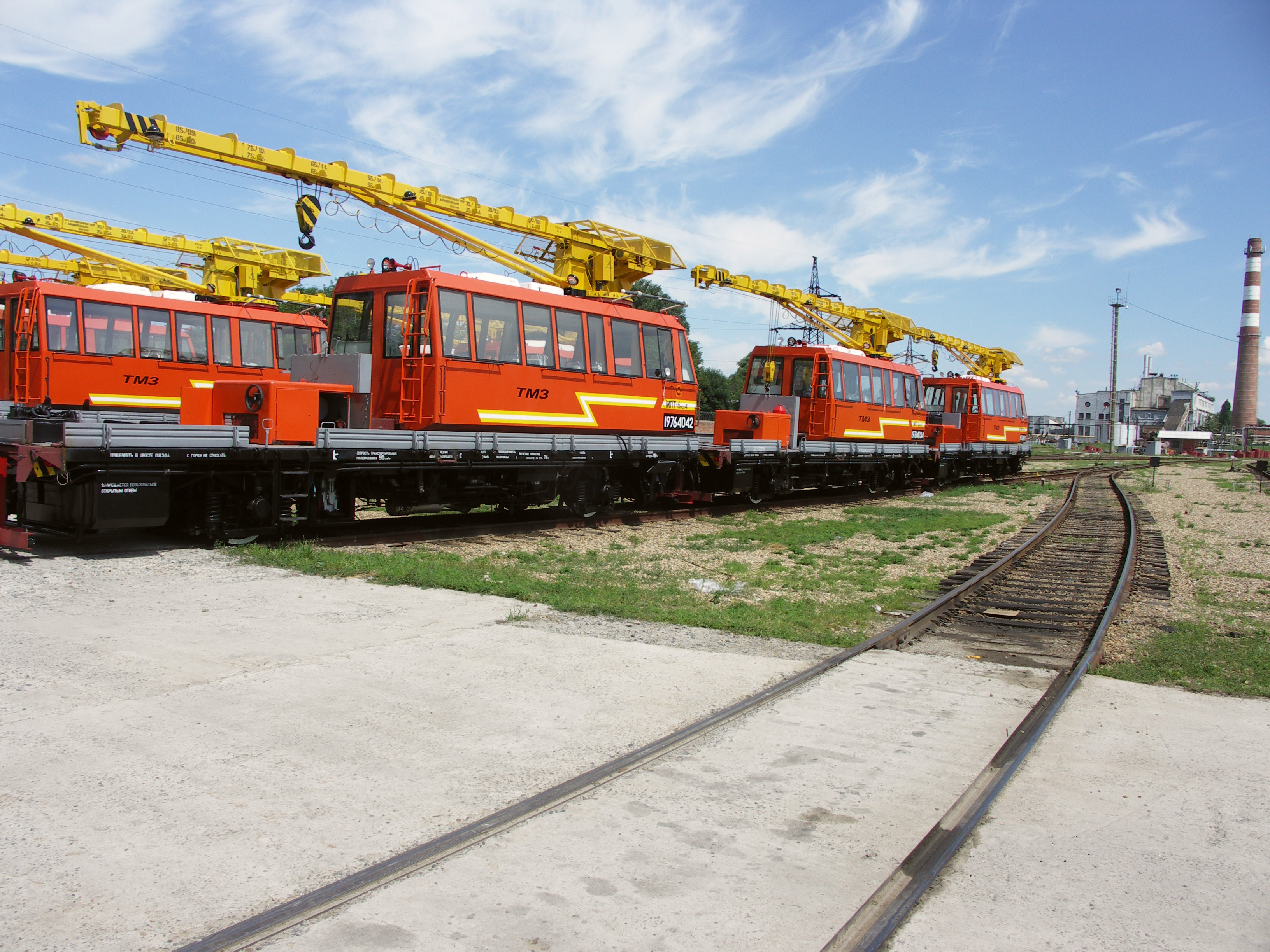 Track machines MPT-6, TMCP VV Vorovsky work in 36 countries around the world.